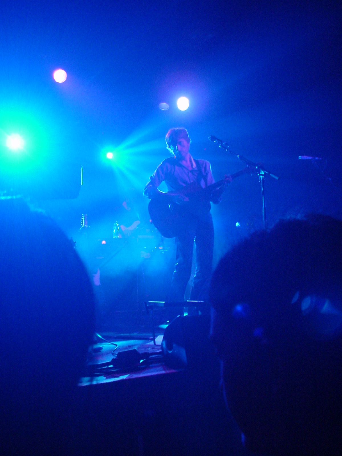 Nicolas Godin at Manchester Academy